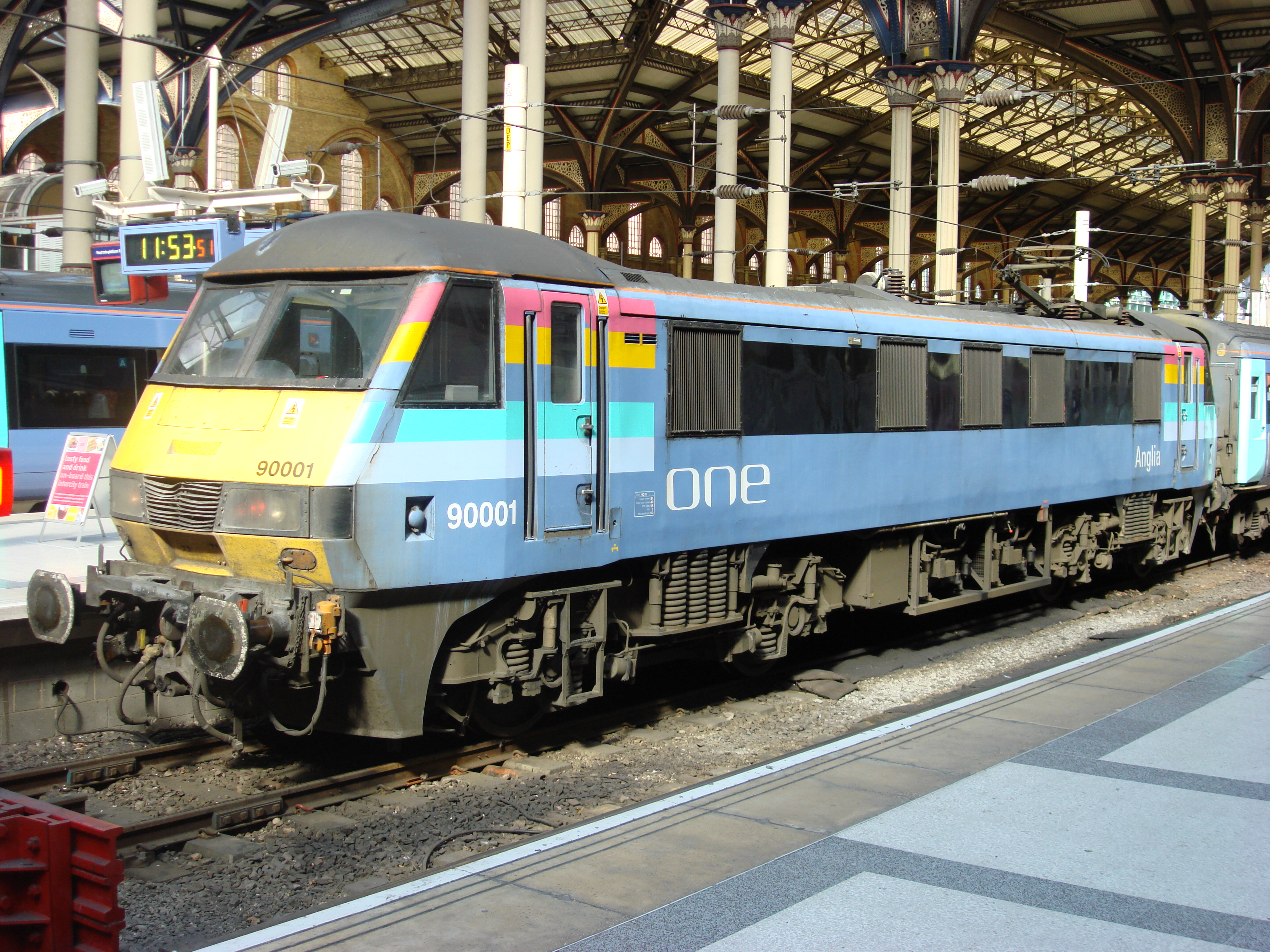 British Rail Class 90 number 90001 stands at Liverpool Street Terminus